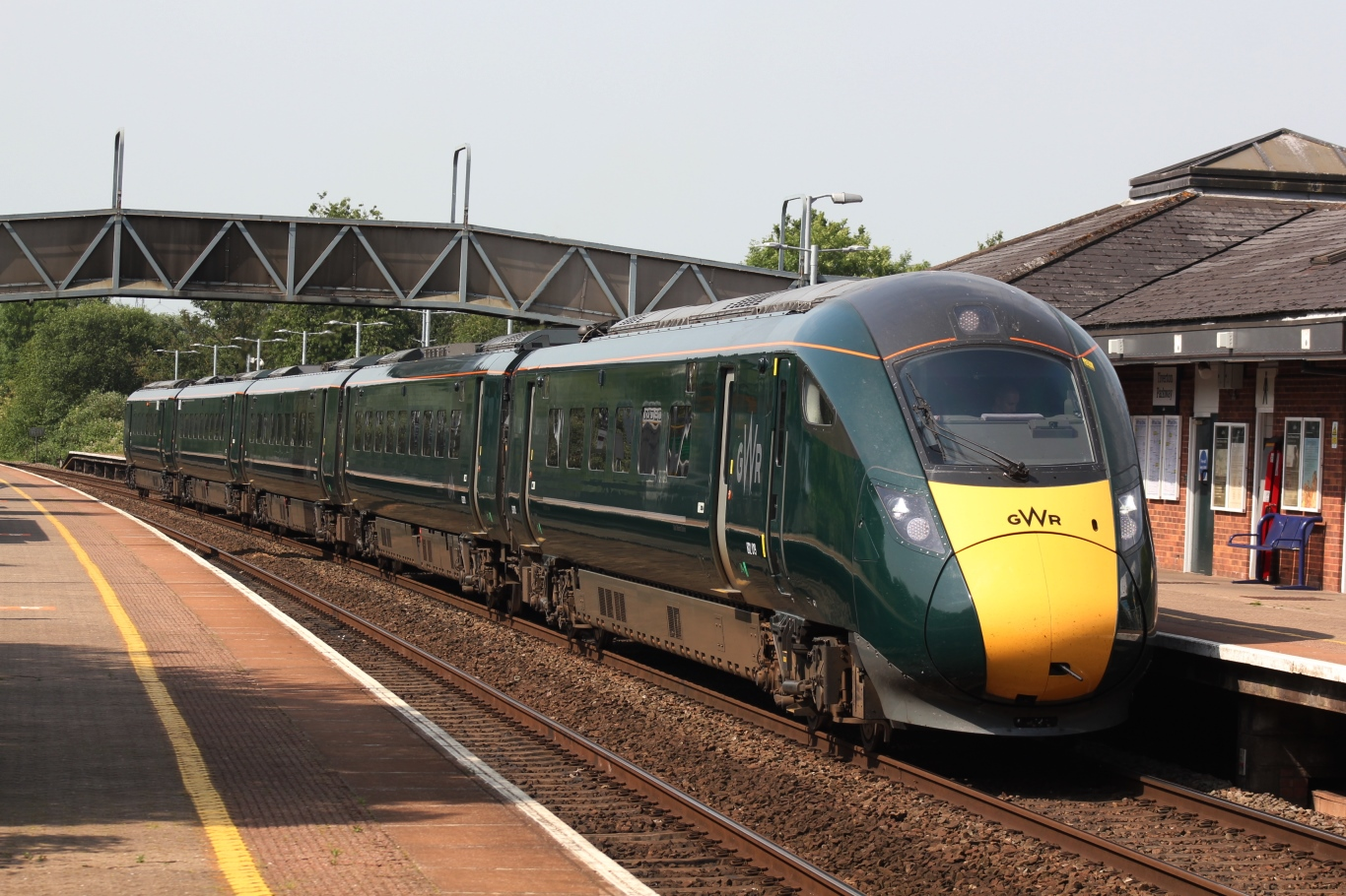 Great Western Railway 'InterCity Express Train' 802019 arrives at Tiverton parkway. Five coaches is not really enough for a summer Saturday service from Penzance to London, especially as the slower Paignton to London train behind it has been cancelled due to a staff shortage.